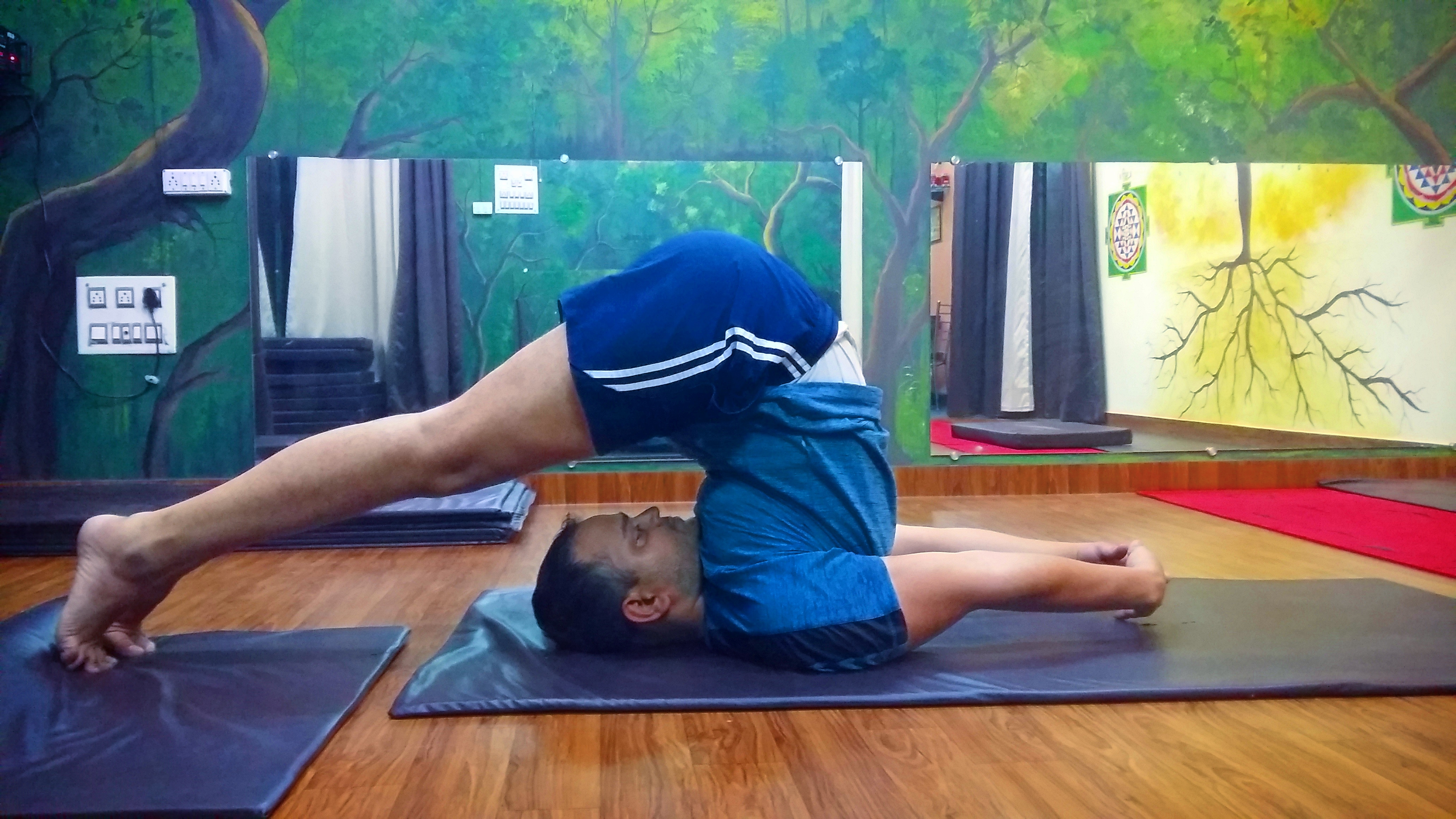 Halasana.. Sadhak Anshit..